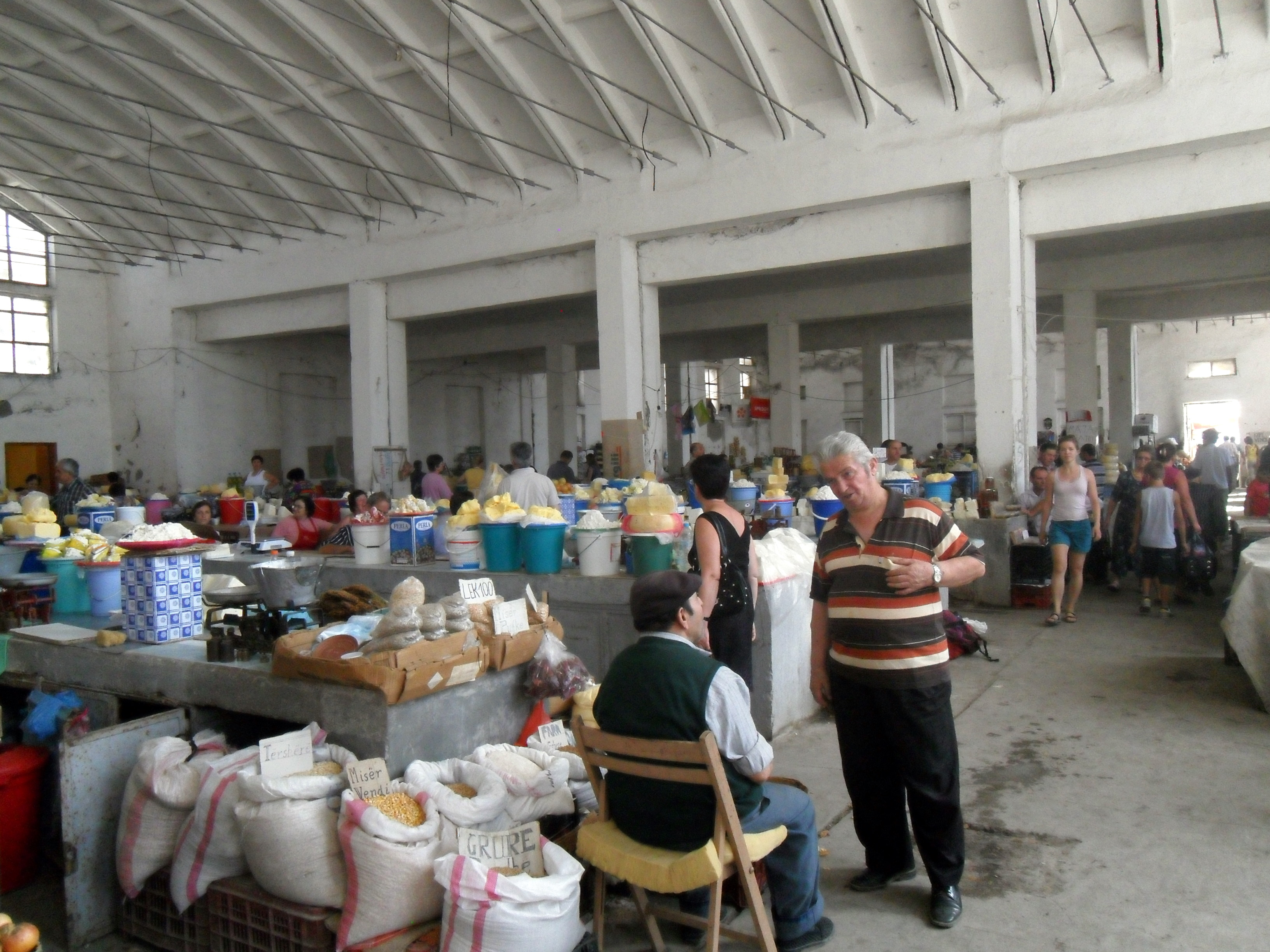 Bazaar in Korçë